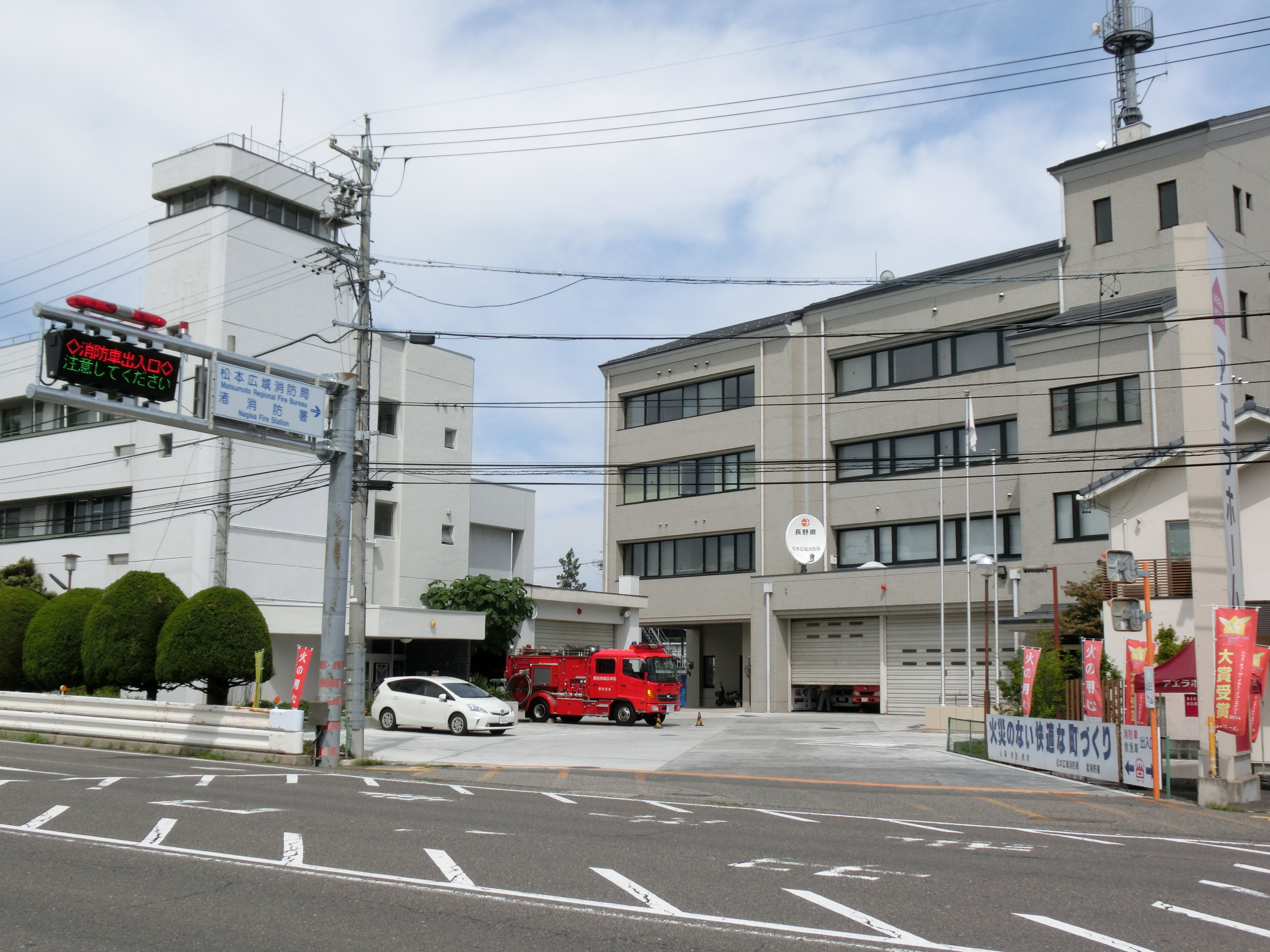 Matsumoto Regional Fire Bureau